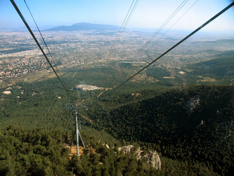 Athens from mount Parnitha